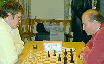 Vladimir Epishin - Alexander Beliavsky, German Chess Bundesliga 1999/2000, 10th October 1999 at Porz.